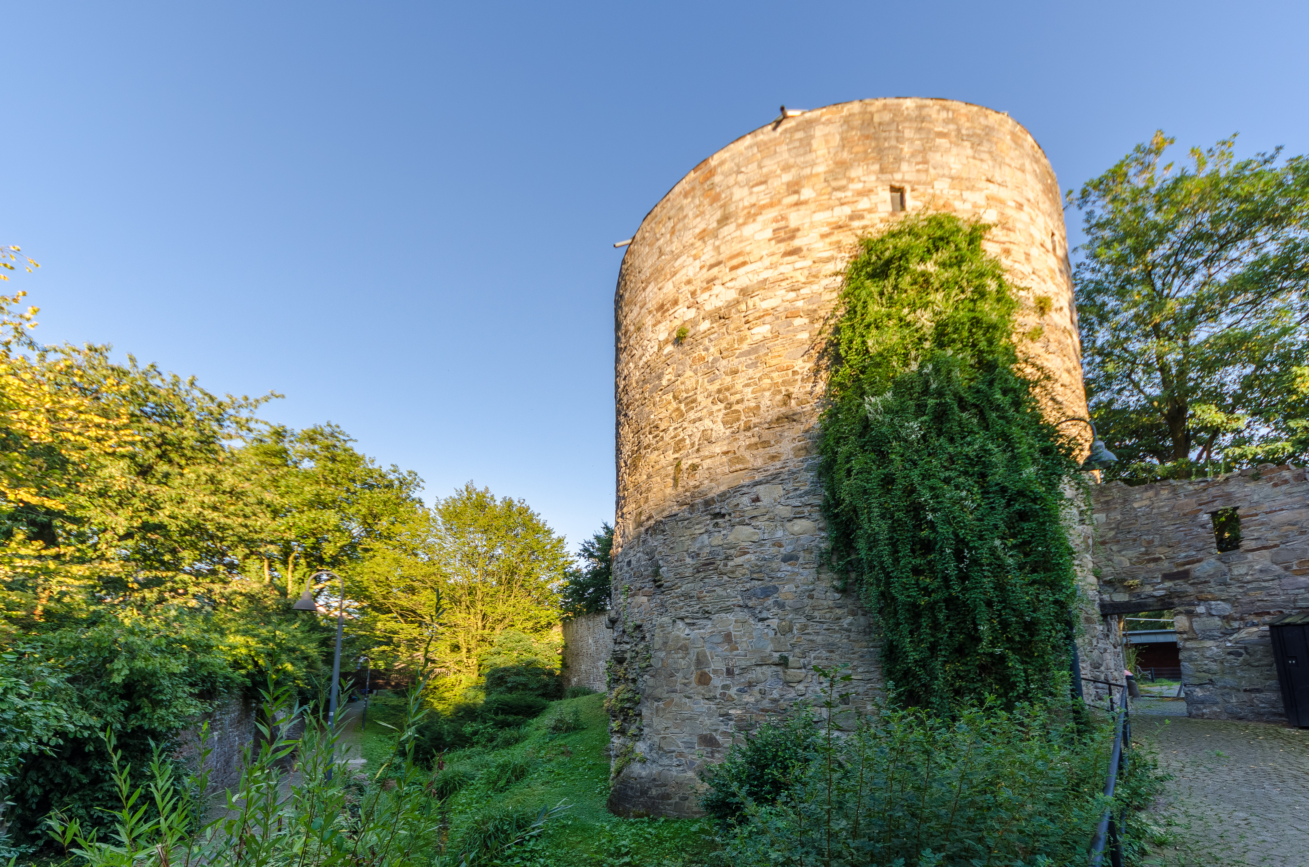 Dicker Turm ("fat tower"), Ratingen